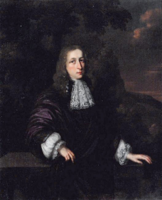 Hobbe Baerdt van Sminia (1655-1721) 1679